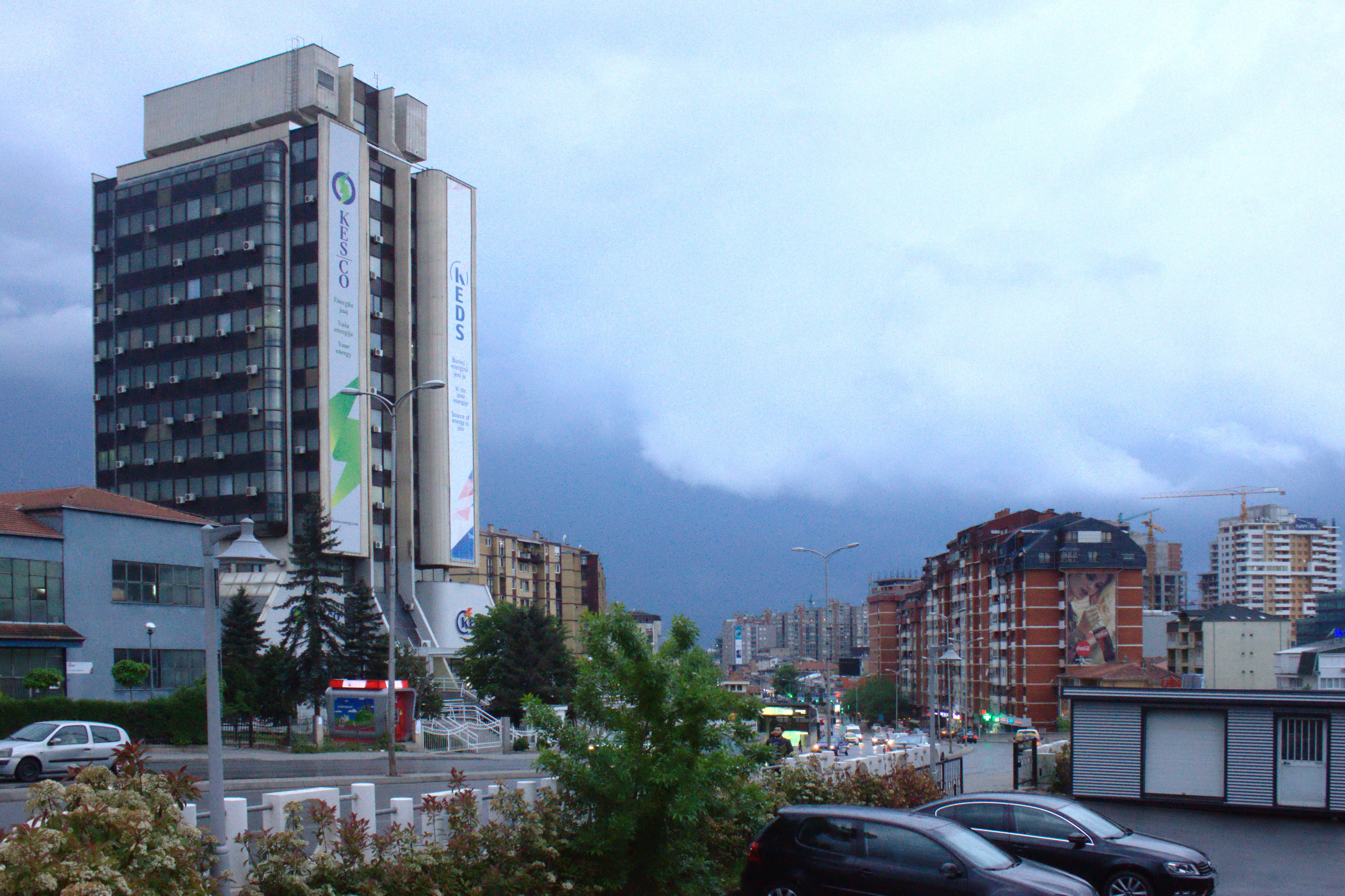 Bill Clinton Avenue in Prishtina